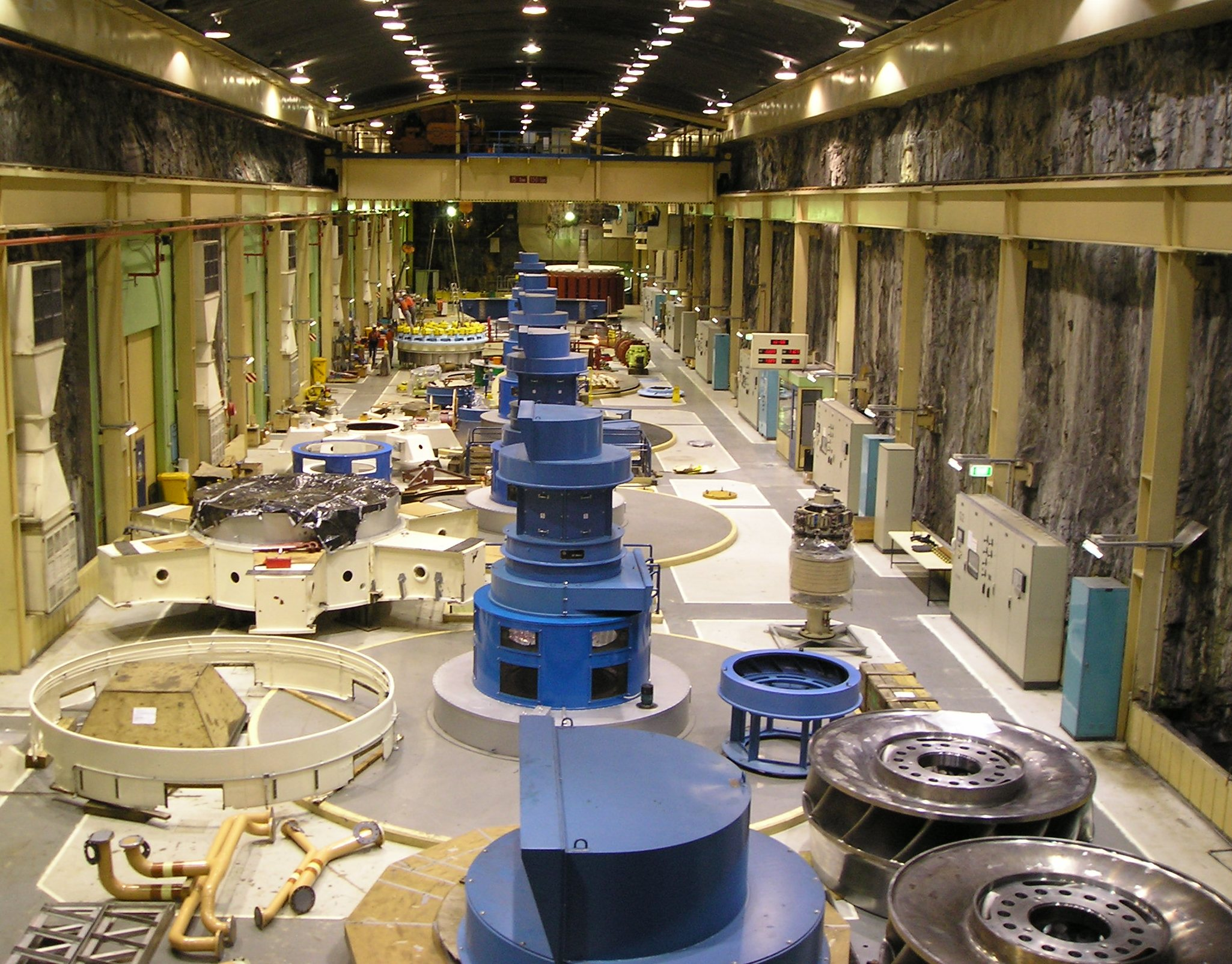 This photograph was taken from the viewing area at the end of the Manapouri Power Station turbine hall in October 2006, whilst the power station was undergoing a mid-life refurbishment. Shown on the lower right are two of the Francis Turbine rotors which are ready to be installed in the generators.